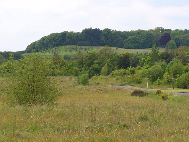 Shipley Hill. The photo was taken from a high point on land reclaimed from a former colliery site. The path running through the picture is part of the Nutbrook Trail, a nine mile route from Long Eaton to Shipley Country Park.